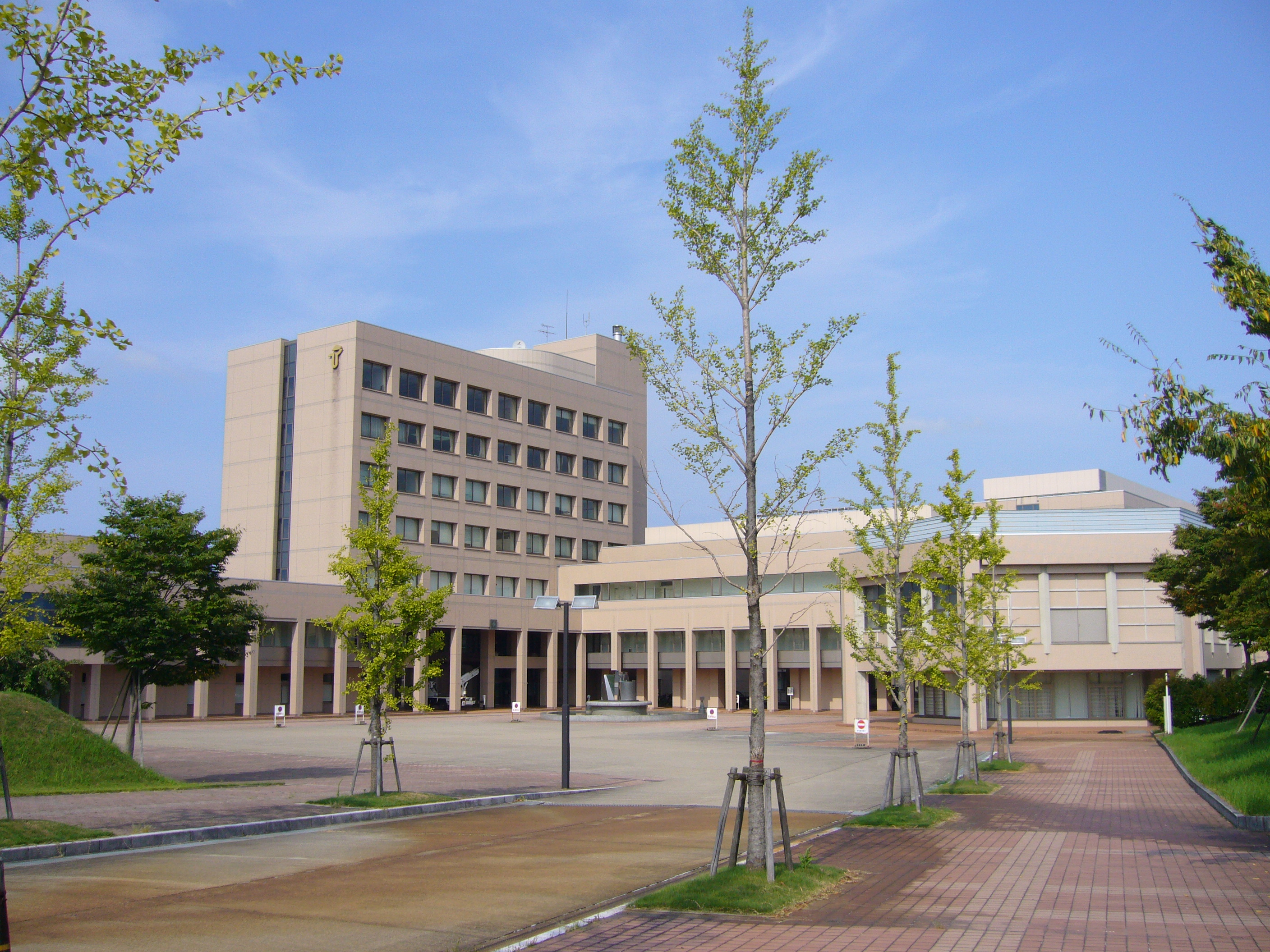 Toyama Prefectural University in Toyama, Japan富山県立大学（富山県射水市）